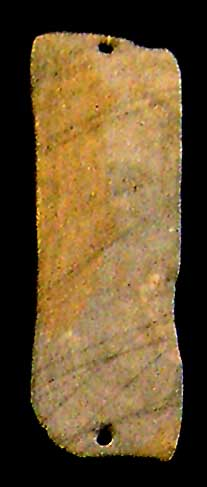 Prehistoric archer arm guard in stone. Part of a funerary equipment from a Bellbeaker culture burial in San Román de Hornija (Valladolid, Spain) in the Archaeological Museum of Valladolid, dated in 1800 BCE